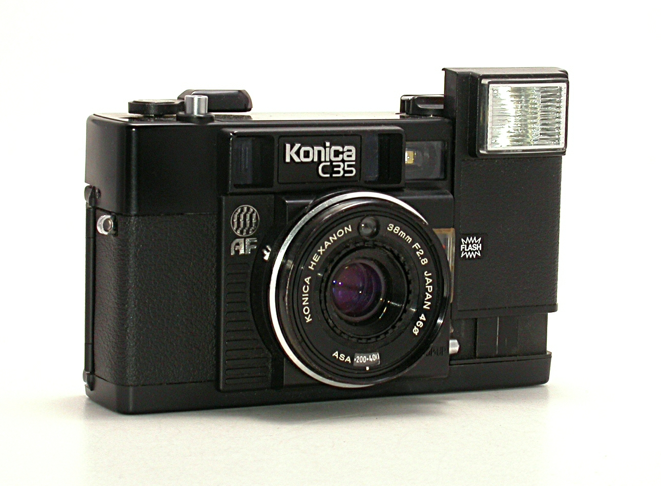 Thought to be one of the first autofocus cameras to go into production.